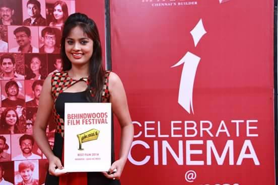 Actress Nandita Swetha at Behind Woods Awards